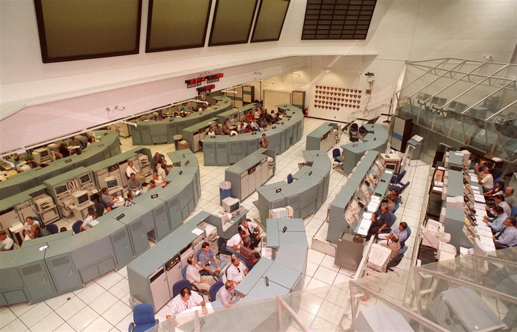 In Firing Room 1 at KSC, Shuttle launch team members put the Shuttle system through an integrated simulation. The control room is set up with software used to simulate flight and ground systems in the launch configuration. A Simulation Team, comprised of KSC engineers, introduce 12 or more major problems to prepare the launch team for worst-case scenarios. Such tests and simulations keep the Shuttle launch team sharp and ready for liftoff. The next liftoff is targeted for Oct. 29.